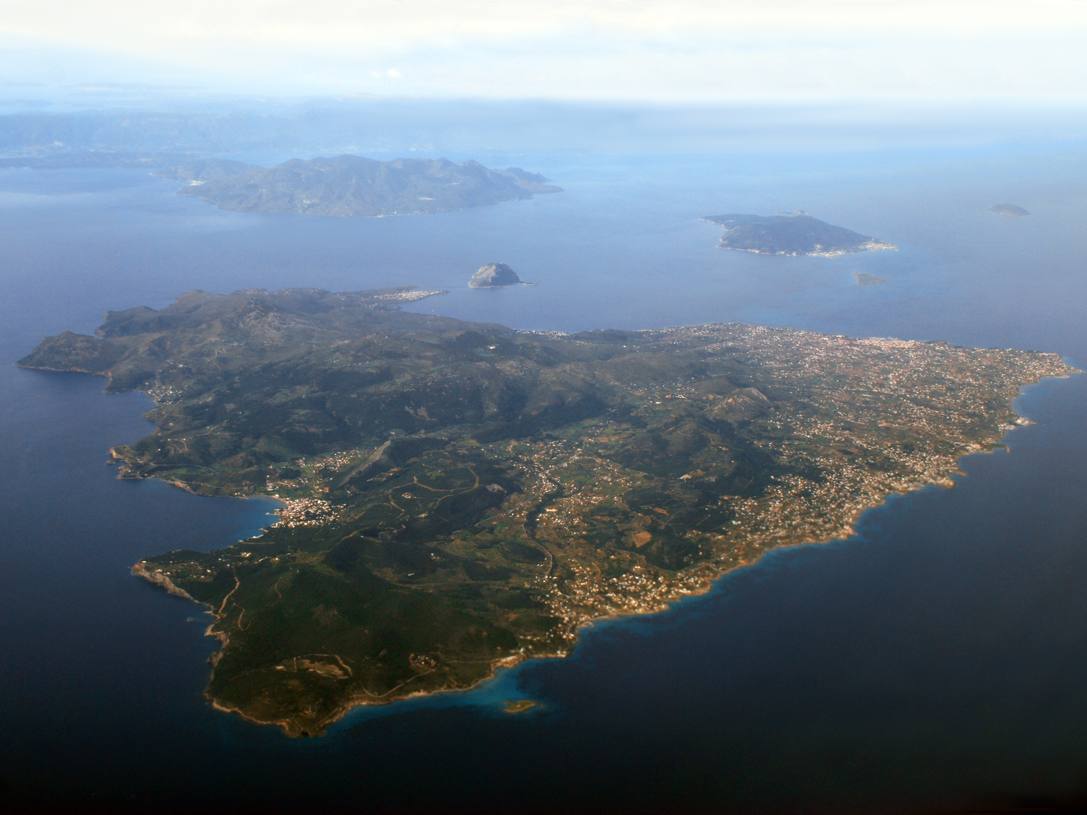 Aegina